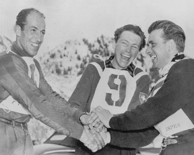 LF57 1950 Wire Photo ZENO COLO FERNAND GROSJEAN JAMES COUTTET Mens Giant Slalom